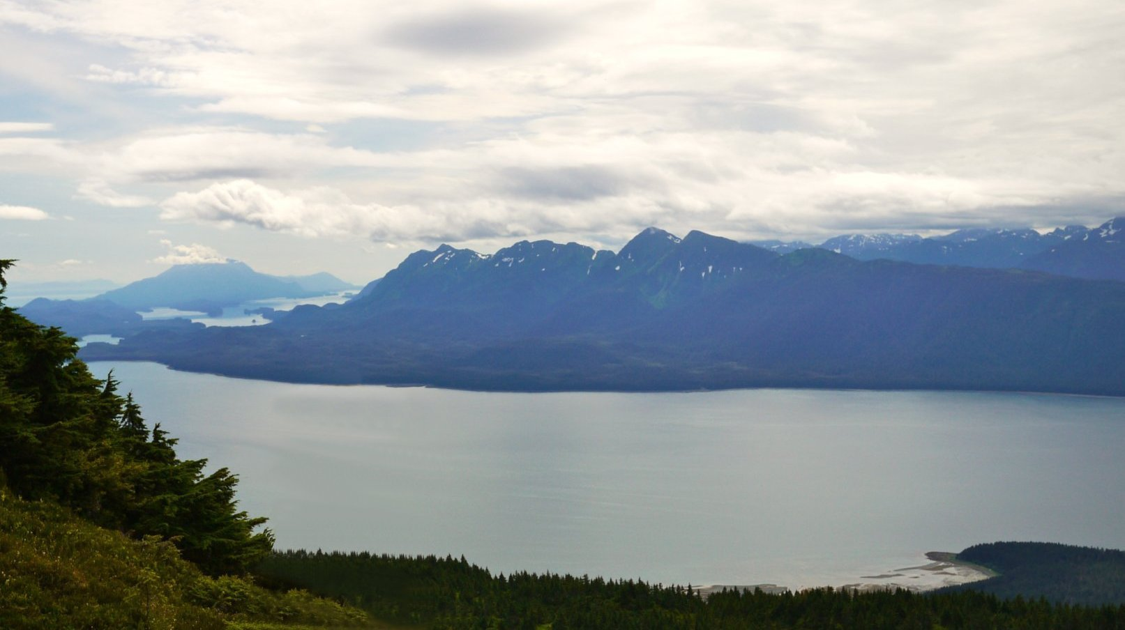 Looking over Stephen's Passage toward Admiralty Island. Seymour Canal is in the upper left. Here at about 3400 feet.